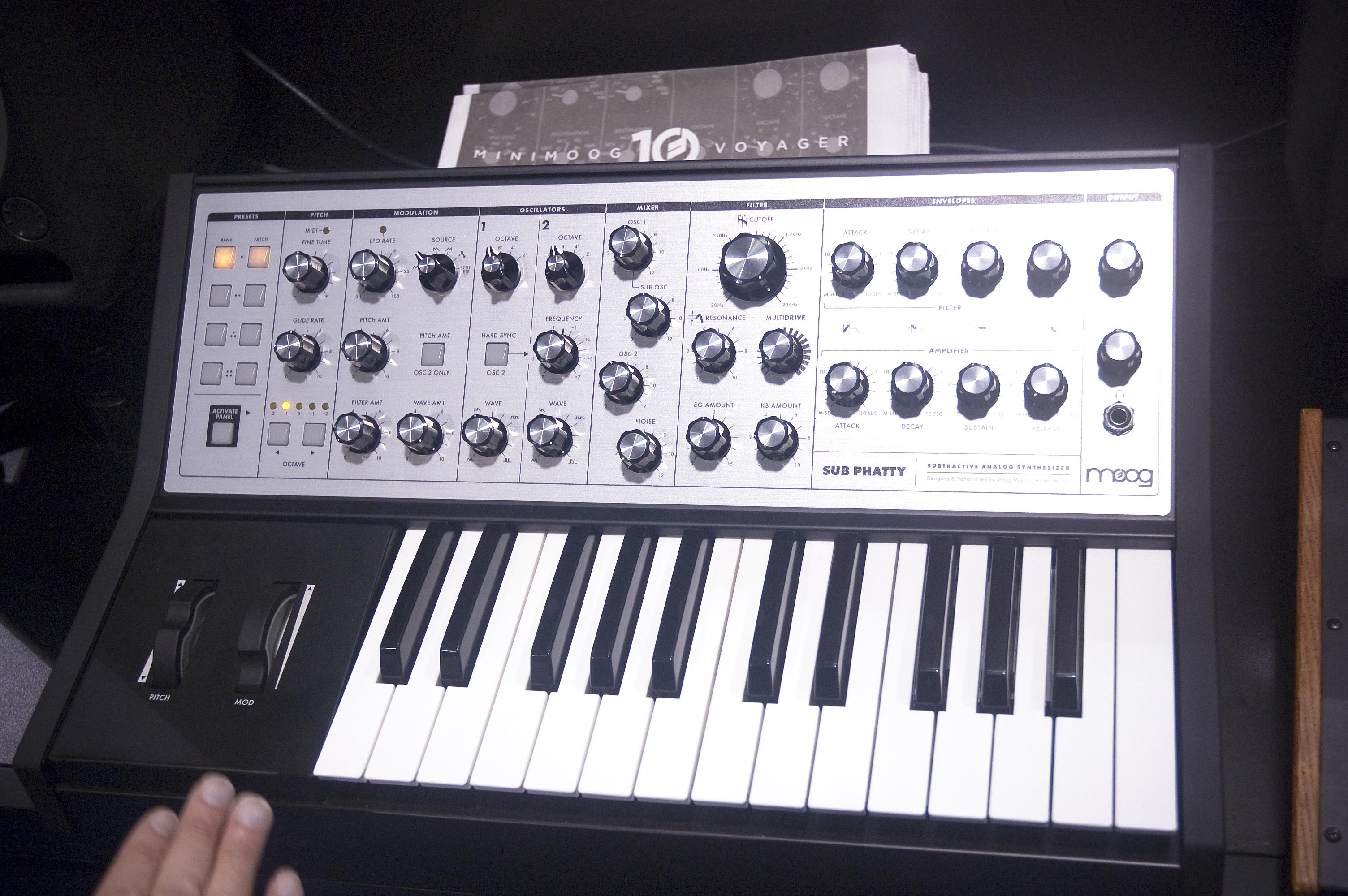 Moog Sub Phatty, NAMM 2013